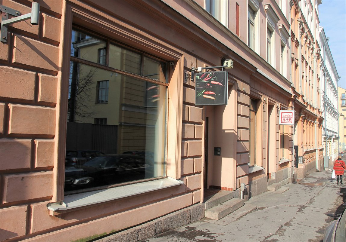 Restaurant Spis, Helsinki, Finland.